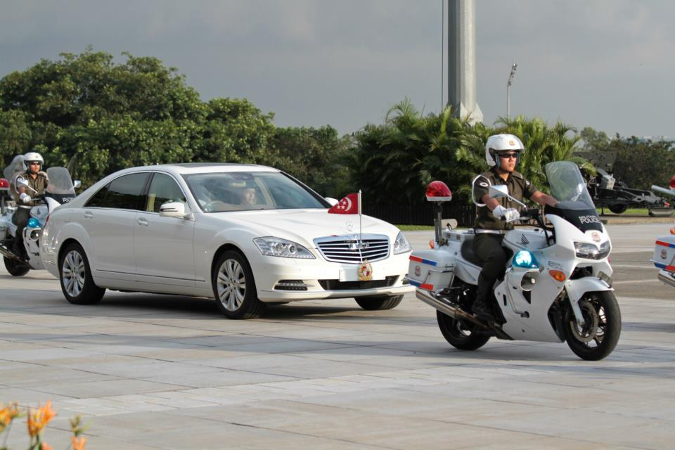 President of Singapore Tony Tan arriving at SAFTI Military Institute for a parade.